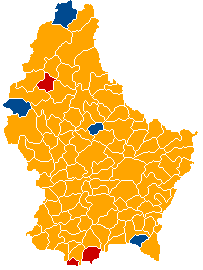 A map of the communes of Luxembourg coloured by the plurality party in the 2013 election to the Chamber of Deputies. Orange represents the Christian Social People's Party, red represents the Luxembourg Socialist Workers' Party, and blue represents the Democratic Party.